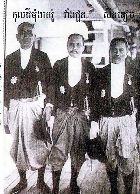 Samdech Chaufea Veang Thiounn in the middle.